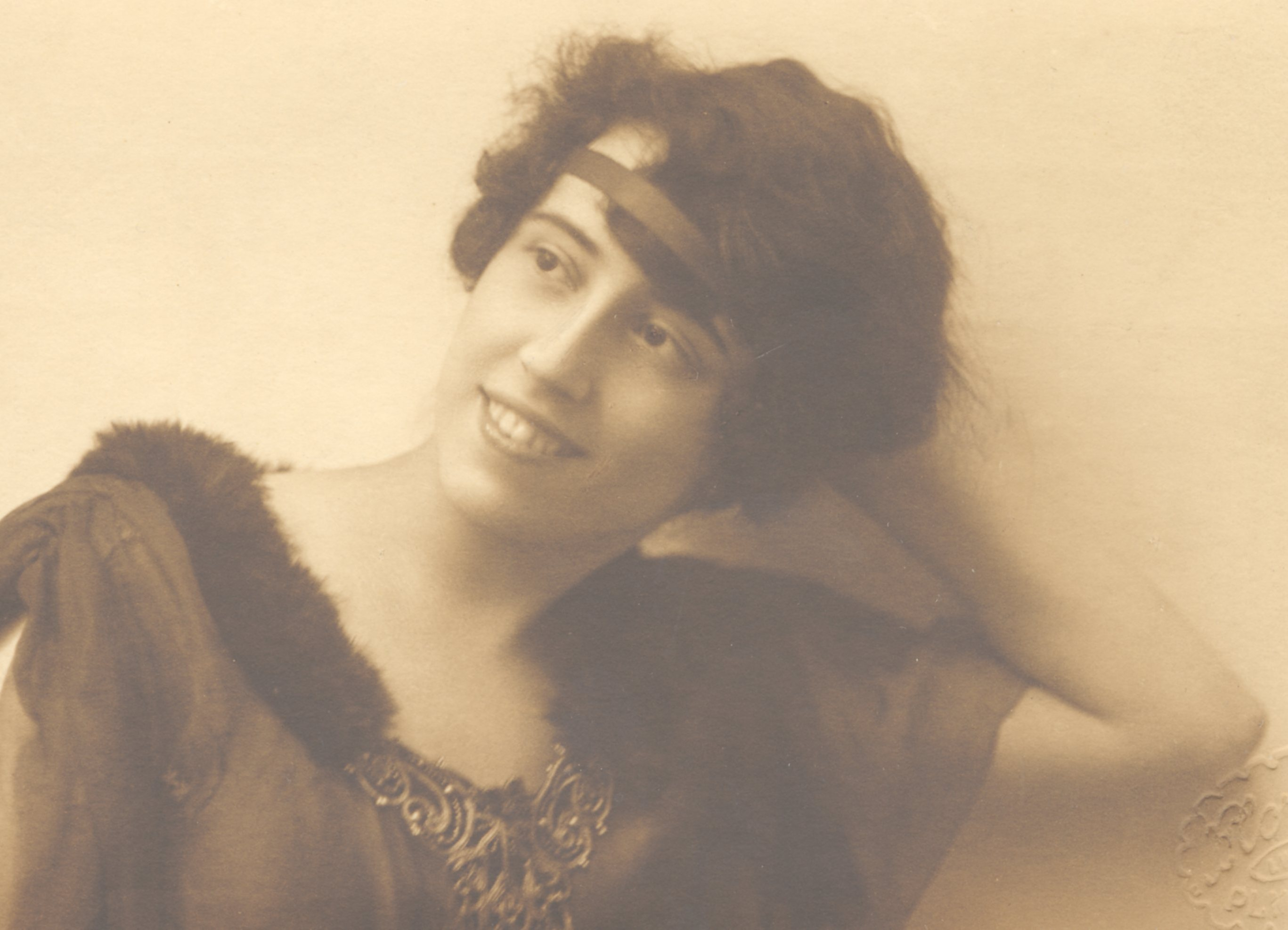 Janina Strzembosz's portrait